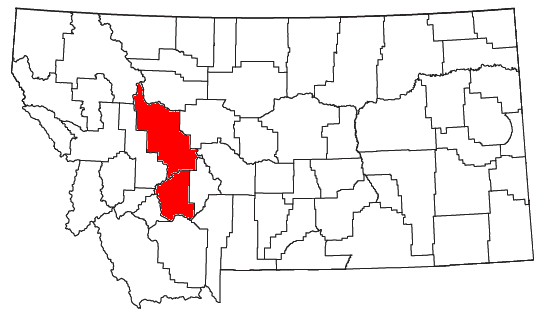 Locator map of the Helena Micropolitan Statistical Area in the western part of the U.S. state of Montana.